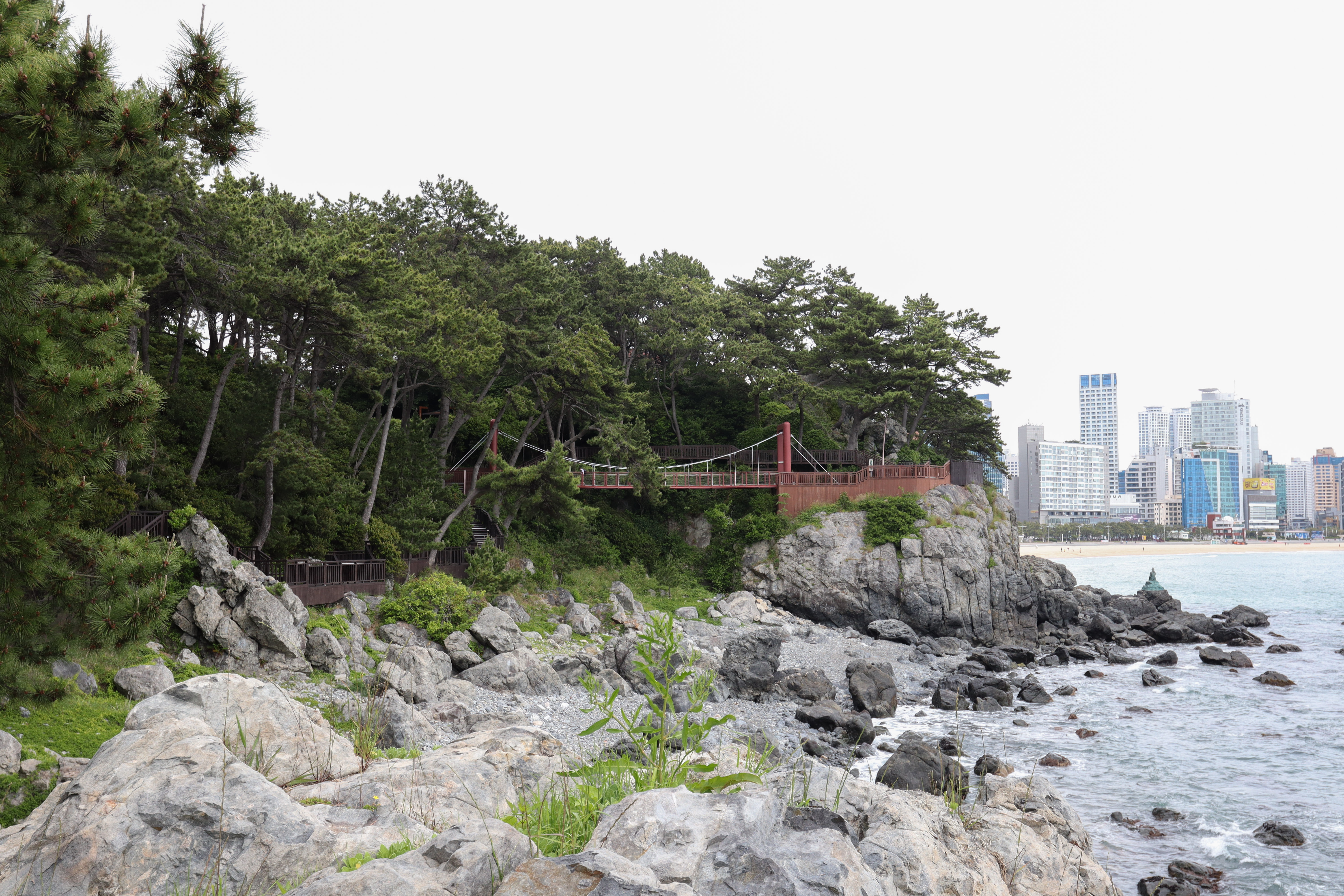 Dongbaek Island, Busan, South Korea